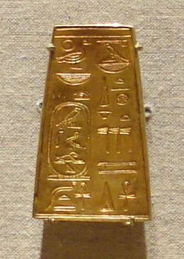 Gold necklace spacer, from the Napatan kingdom, reign of Aramatelqo, c. 568-555 BC. Owner was possibly Aramatelqo himself, or one of his courtiers. (Brooklyn Museum). The cartouche name: "Ara-Maa-ti-L-k/q", composed of the hieroglyphs: Horus, sickle, pestle, lion, hill.